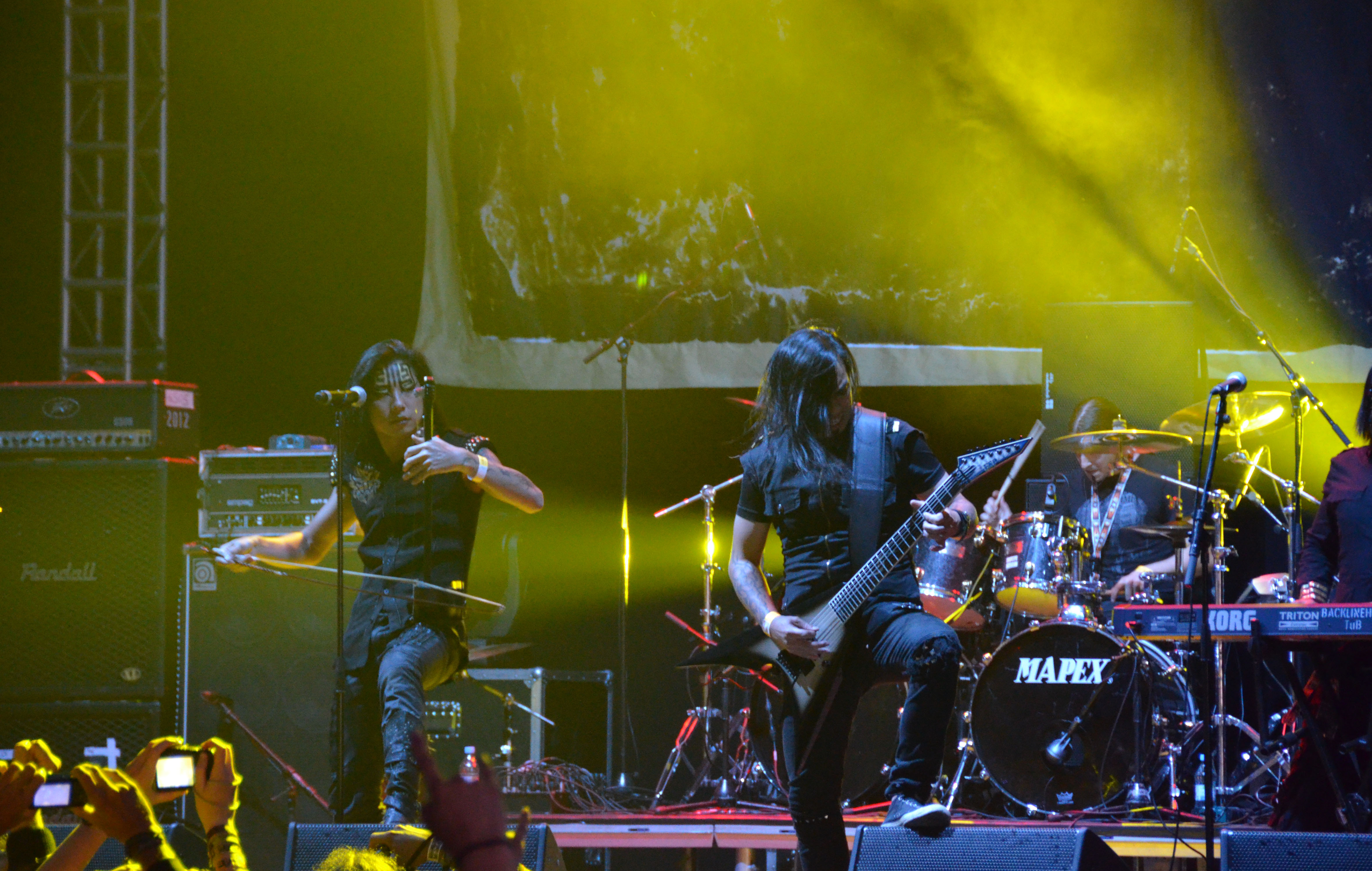 Chthonic at Wacken Open Air 2012